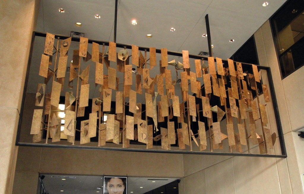 Harry Bertoia's controversial "Textured Screen" created for the Dallas Public Library now hangs in the J. Erik Jonsson Central Library in downtown Dallas, Texas